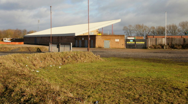 Hayley Stadium, Newport Speedway stadium on Plover Close, Queensway Meadows, Newport. Home of Newport Wasps and Newport Hornets speedway teams. Newport Hornets, who compete in the National League, are effectively the reserve team for Premier League Newport Wasps and provide the club with a new source of riding talent for the future.